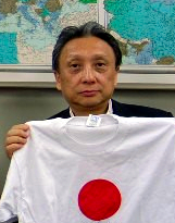 Miriam Were, Chairperson of the National AIDS Control Council, met Masato Mugitani, Deputy Director-General for Global Health, Ministry of Health, Labour and Welfare, in Tōkyō Metropolis on October 7, 2011.